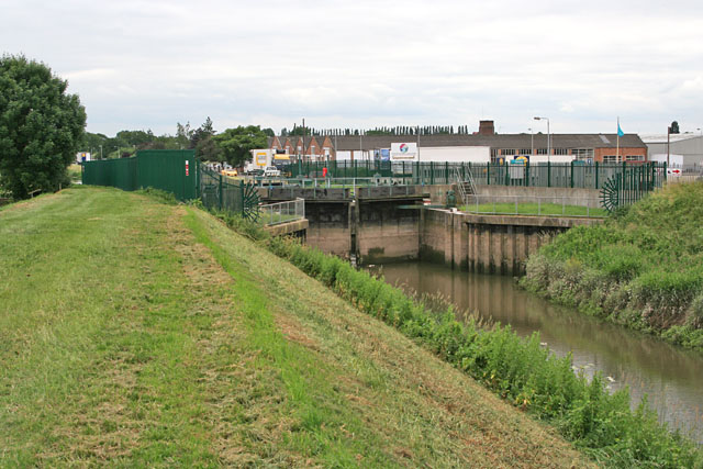 Fulney Lock, Spalding. The River Welland is tidal this side of Fulney Lock which helps protect Spalding from flooding in the event of a very high tide. In this photograph the level of water in the tidal part of the river is the same as in the non-tidal section and the gates are almost closed. As the tide level becomes higher the gates will close fully. The Lincolnshire Fens used to be subject to severe flooding both from high tides and raised river levels after heavy rain. After the 1953 floods major improvement work was carried out including upgrading sluice gates, flood barriers and drainage channels. Round Spalding tidal defence on the rivers and drains is provided by doors which close on the rising tide,preventing flood water ingress, but open during low tide periods allowing rivers and drains to discharge freely into the tidal reaches and thus into the Wash. Fulney Lock on the River Welland, Marsh Road Sluice at the outfall of the Coronation Channel, Surfleet sluice at the outfall of the River Glen and the sluice on Vernatt's Drain are examples round Spalding. See 851286 and 188932